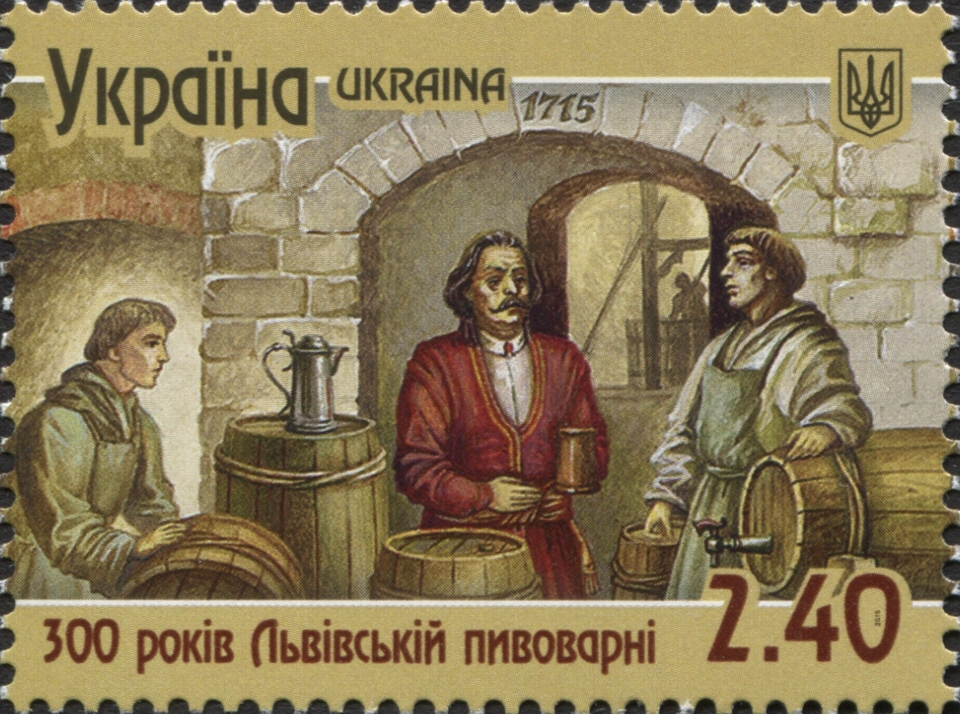 Stamps of Ukraine, 2015